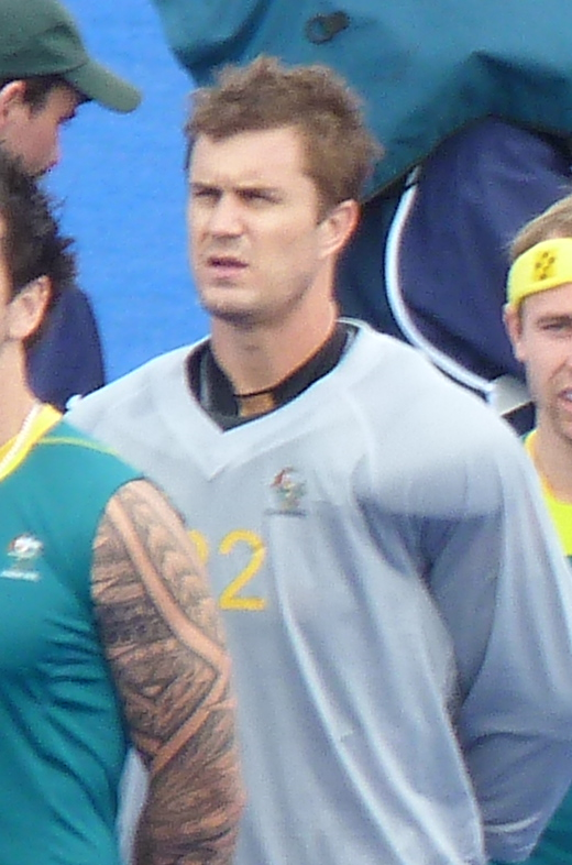 2012 Olympic field hockey team Australia at the Riverbank Arena before the game against Spain